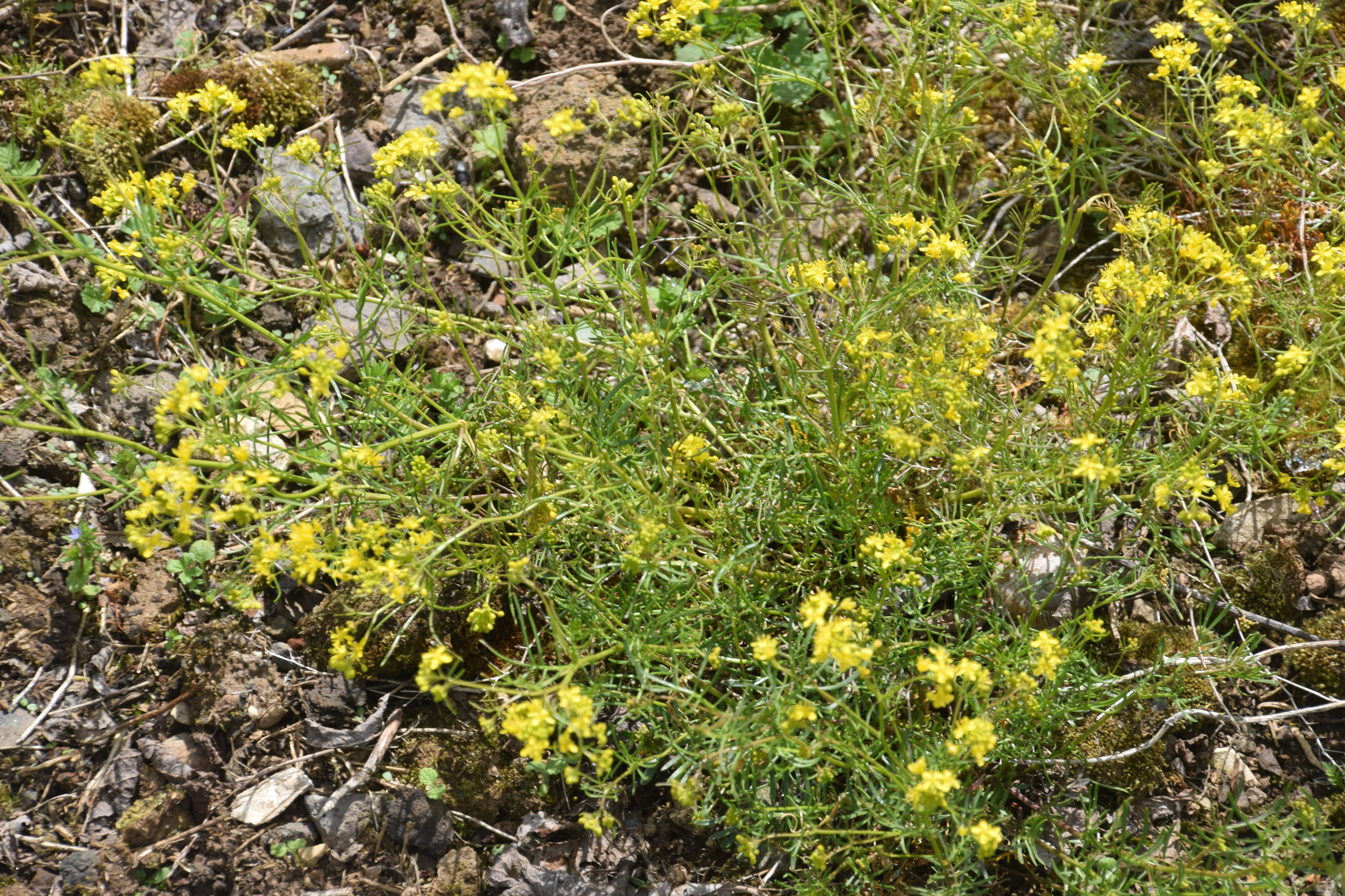 Rorippa pyrenaica in Jardin Botanique de l'Aubrac, commune of Saint-Chély-d'Aubrac, Aveyron, France